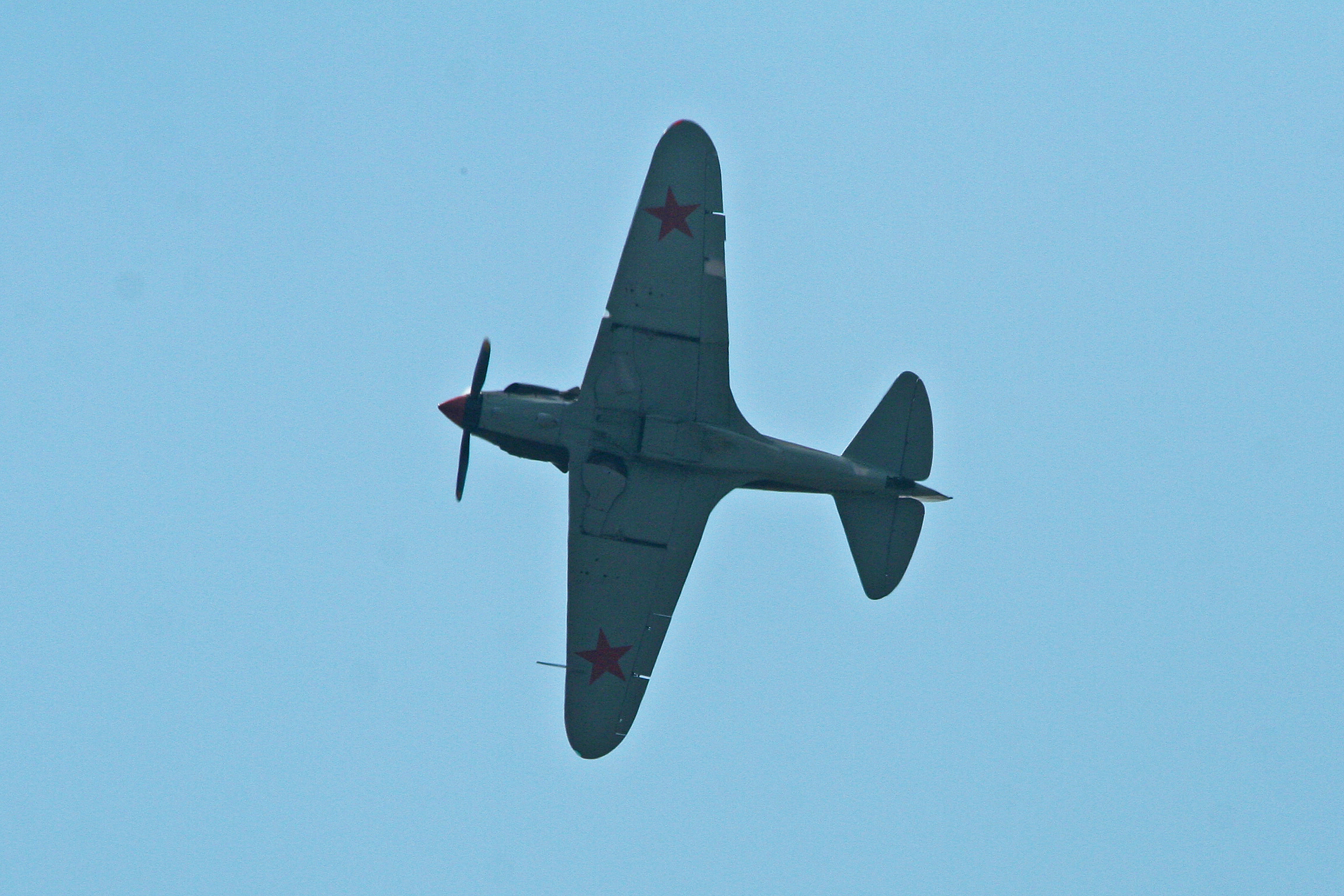 This MiG-3 was rebuilt by Aviarestorations and is 40% original. It is a regular flyer at Russian airshows. Russian Air Force 100th Anniversary Airshow. Zhukovsky, Russia. 12-8-2012